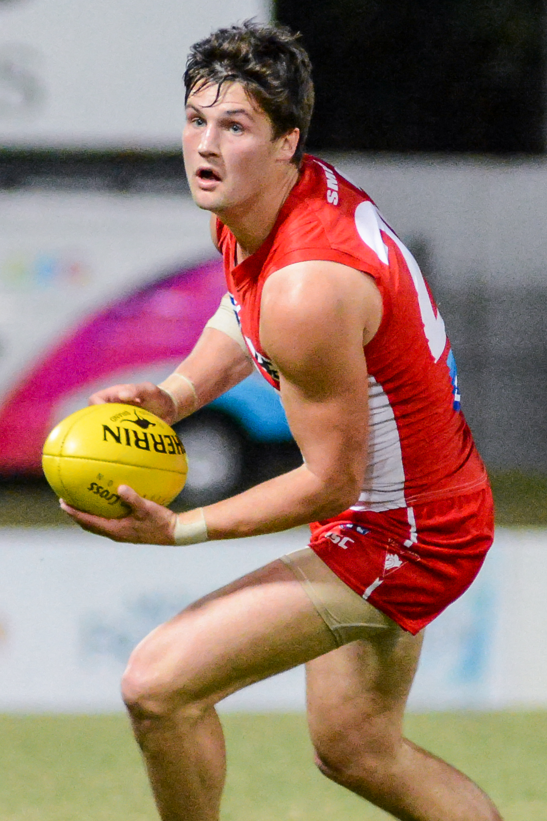 Newman playing for the Sydney Swans reserves in August 2016